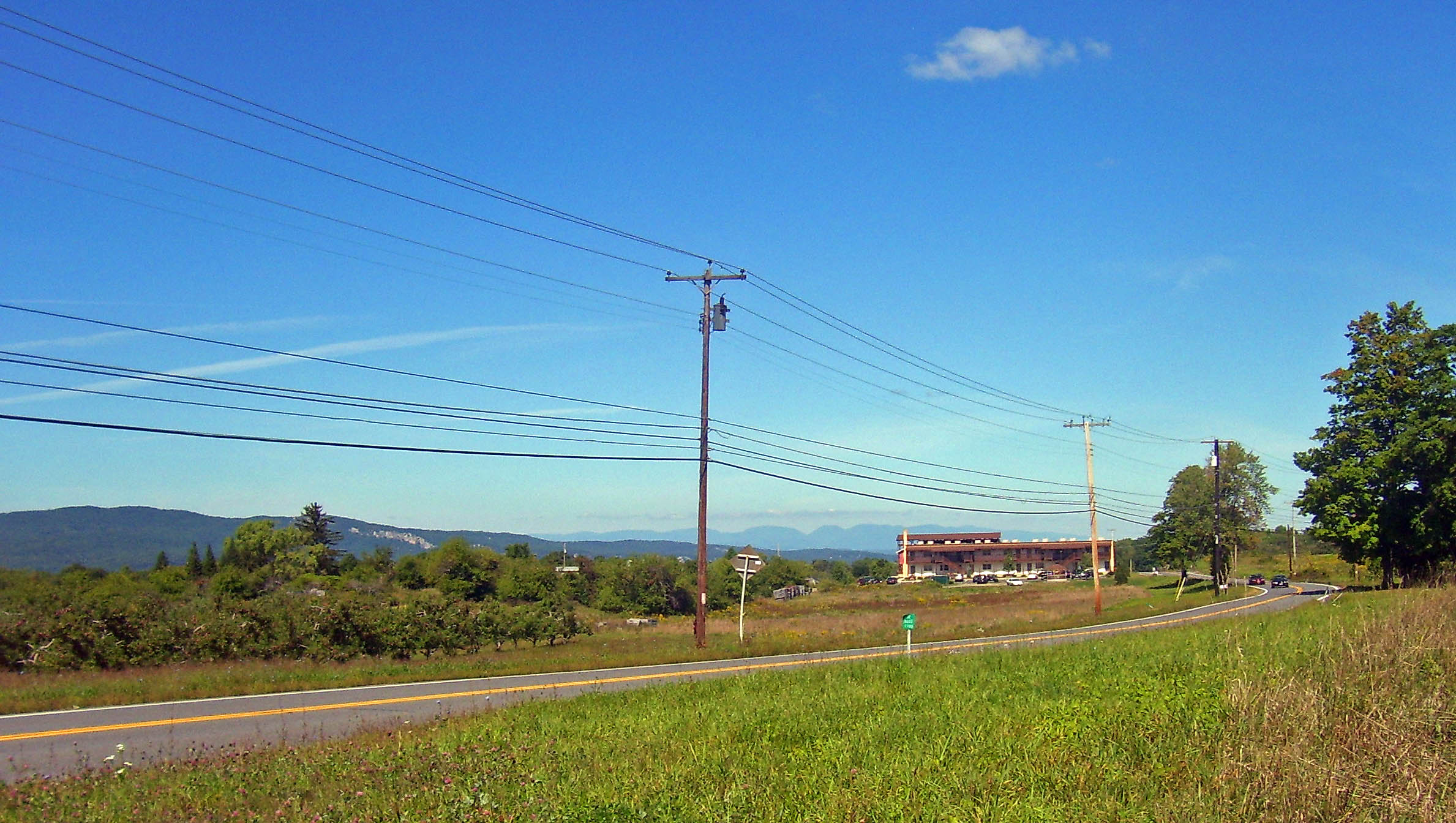 NY 32 approaching New Paltz, NY, USA, from the south with the Shawangunks and Catskills visible in the distance.